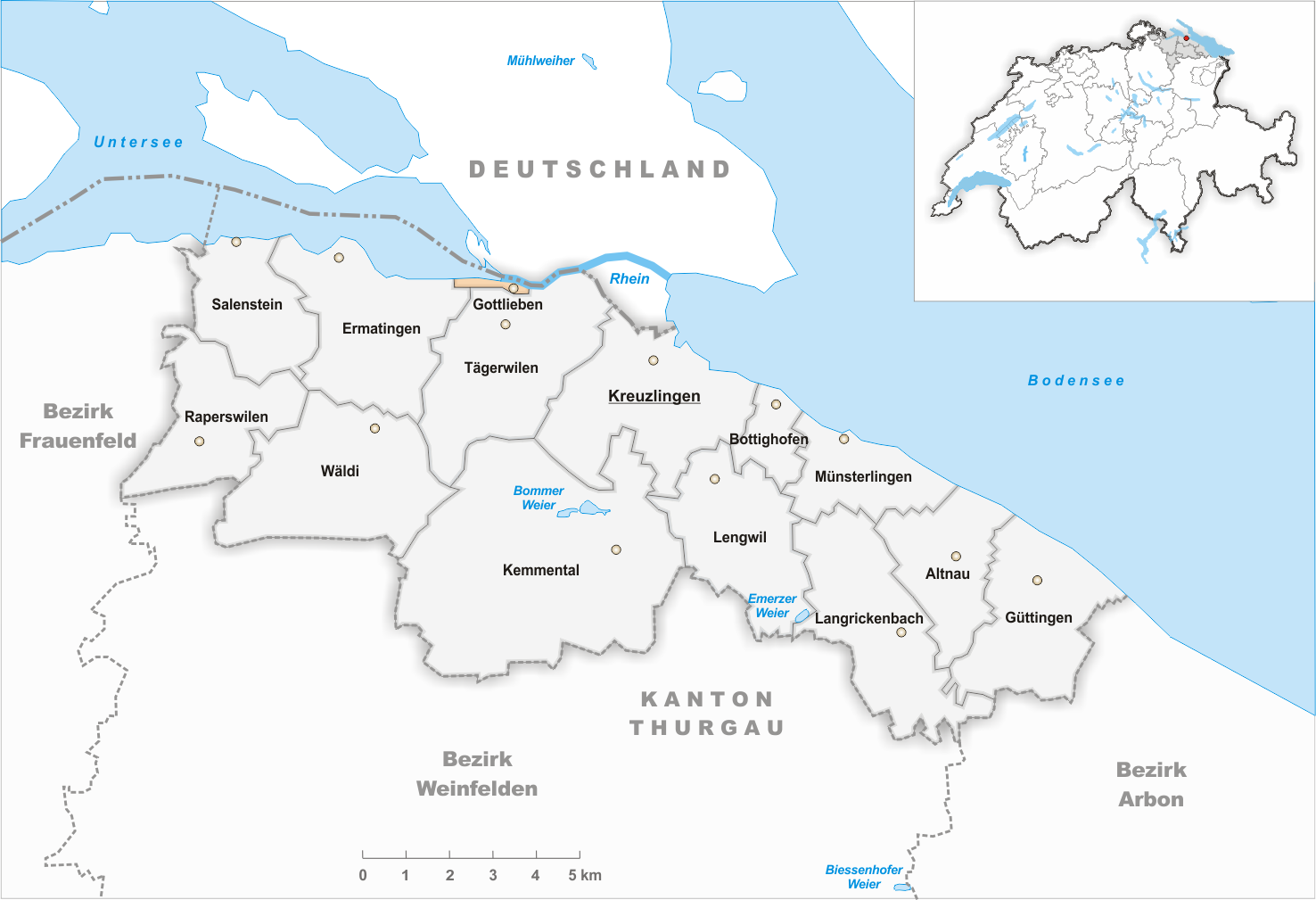 Municipality Gottlieben